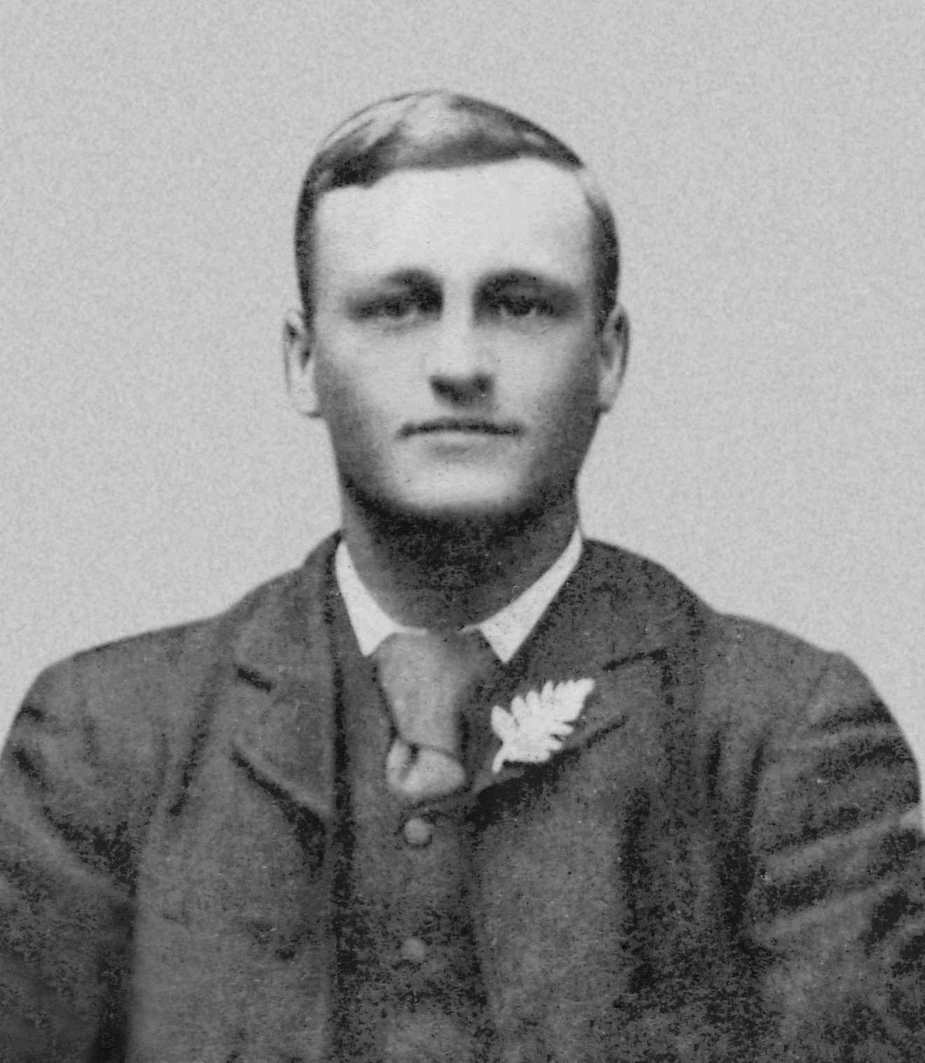 Henry Butland - West Coast captain